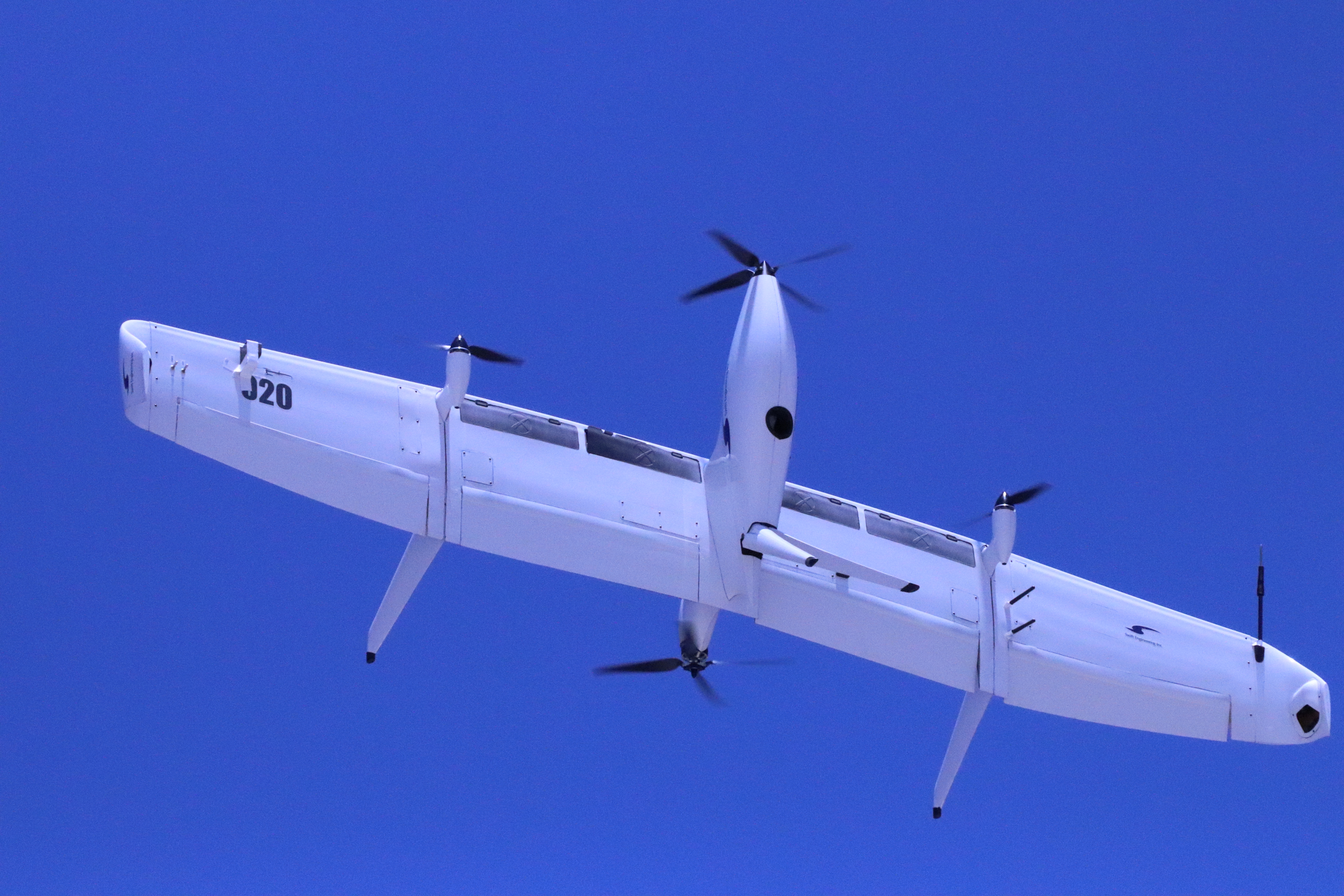 a picture of UAS, flying Swift020. I took it in Kobe Merikenpark at 21st July.